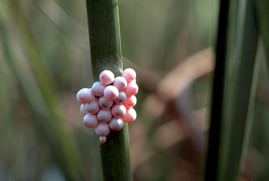 Apple Snail Eggs. The hatching times for egg-laying animals, including birds, fish, amphibians, insects, and plankton – or even these Apple Snail eggs – turn out to follow the same relationship.